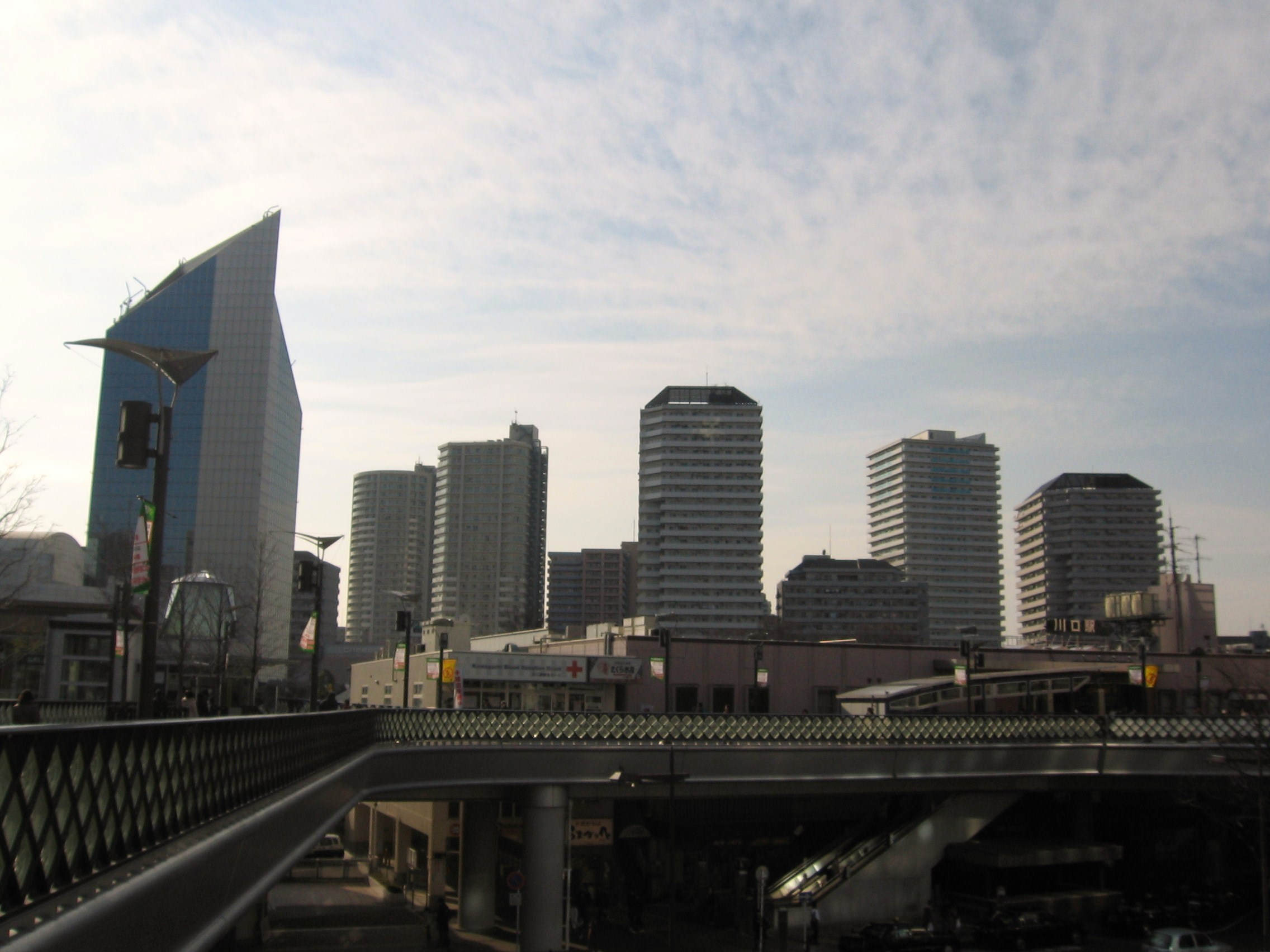 view of main part of Kawaguchi in KawaguchiCity,Japan.